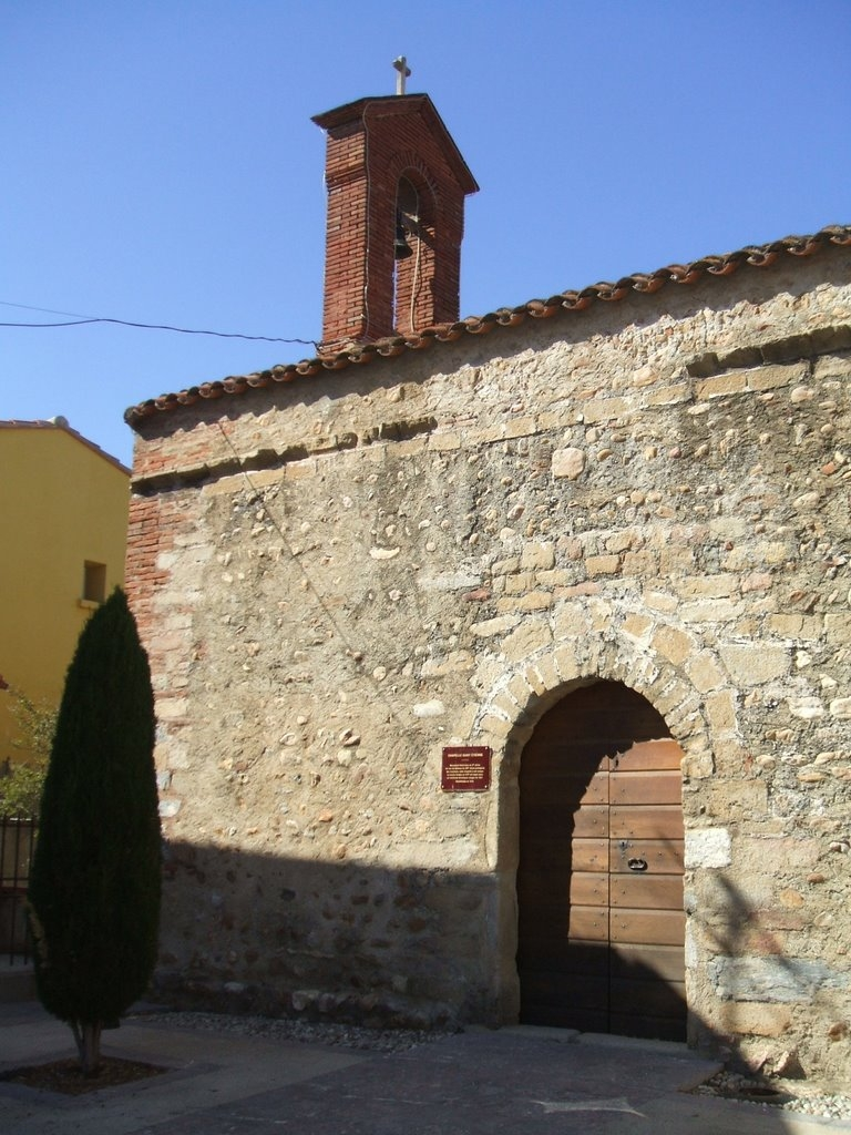 Saleilles (département of Pyrénées-Orientales, Languedoc-Roussillon région, France) : Saint-Etienne chapel (XIIth century), former church of the village.